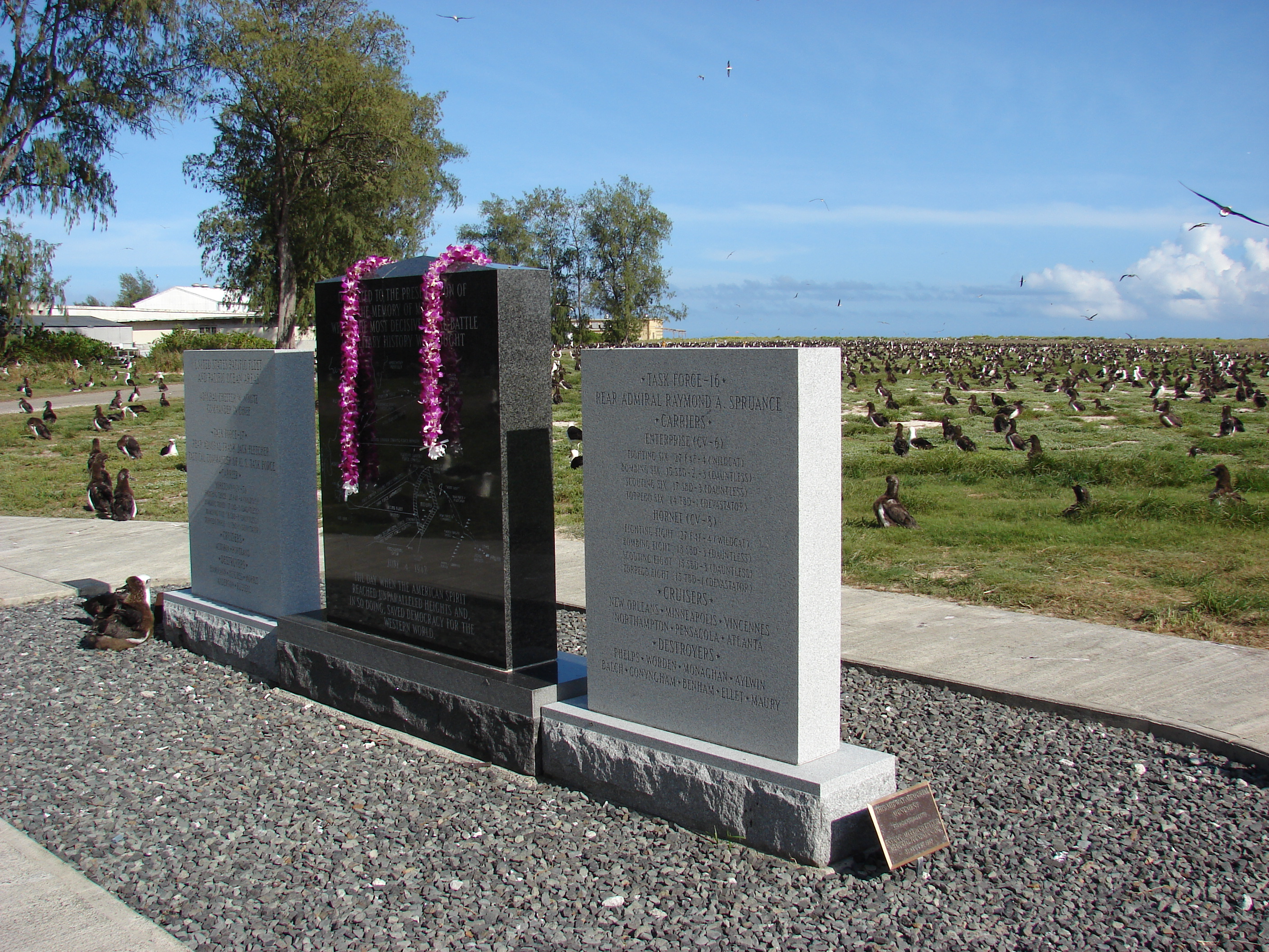 Unknown orchidaceae (lei for 66 anniversary Battle of Midway with Laysan albatross). Location: Midway Atoll, Battle Memorial Sand Island